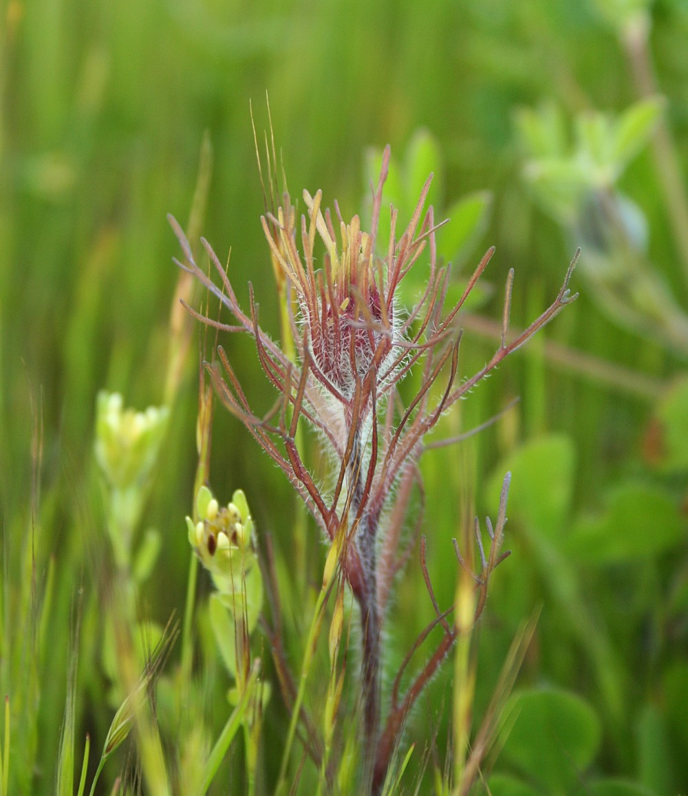 Purple owl's clover (Castilleja exserta) found in Livermore, California.